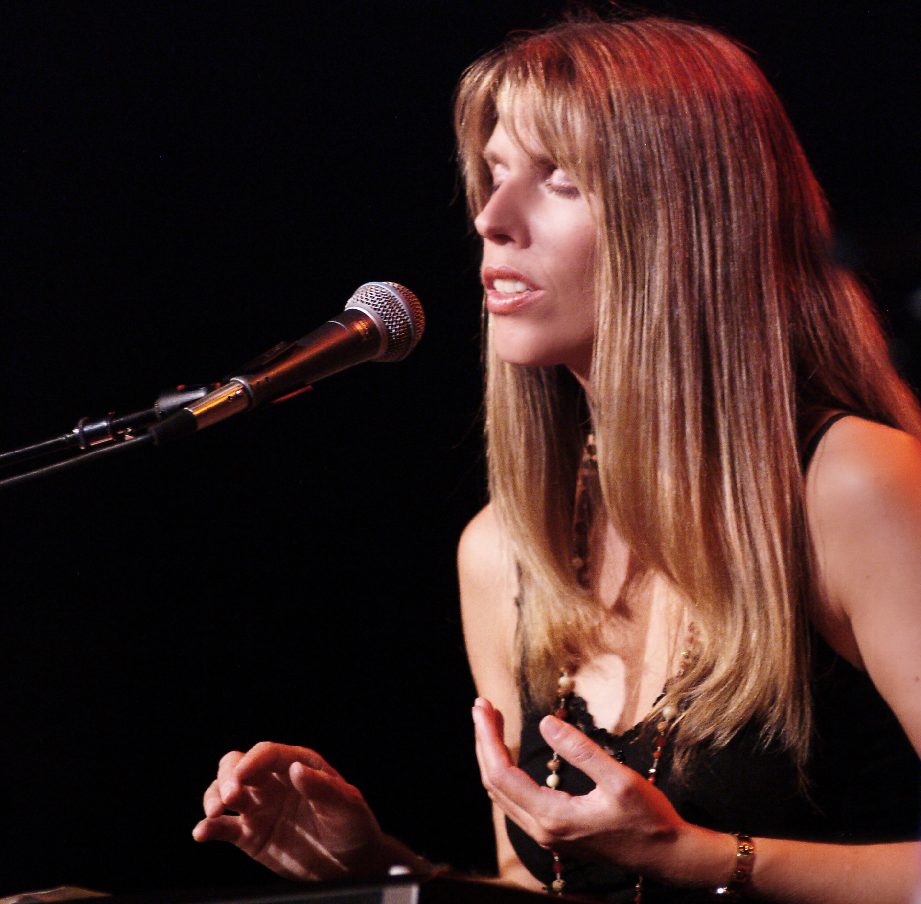 Photograph of Deva Premal. Copyright owned by Prabhu Music, available here